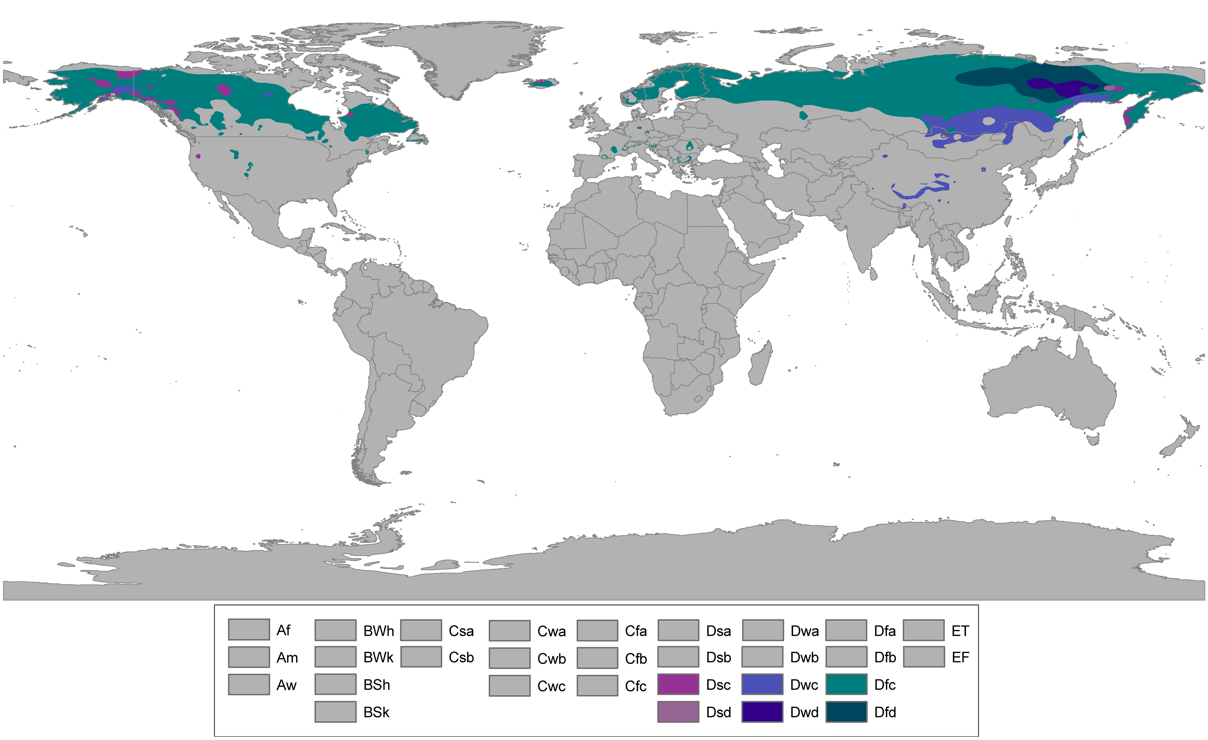 Updated world map of the Köppen-Geiger climate classification. Continental Subarctic climates (Dfc, Dwc, Dsc, Dfd, Dwd, Dsd)